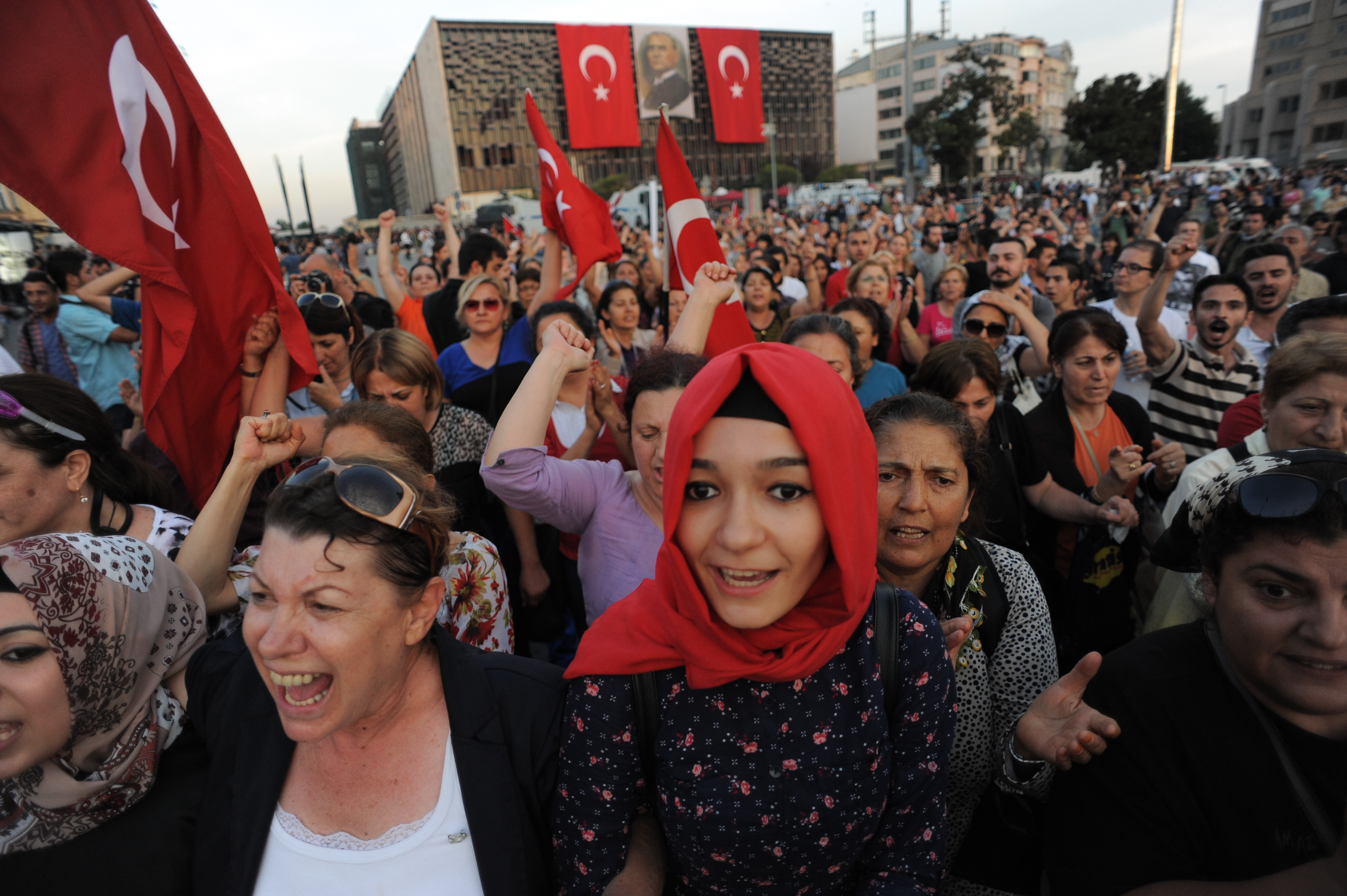 Taksim square peaceful protests. Events of June 16, 2013.